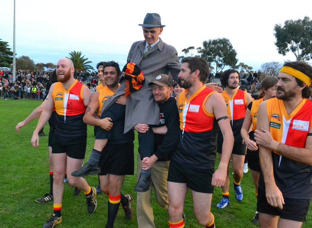 Singer-songwriter Paul Kelly, coach of the Espy Rockdogs, celebrates with his team after winning the 2011 Community Cup